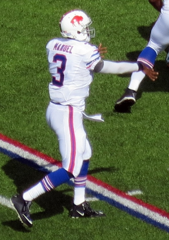 EJ Manuel vs. Miami Dolphins in 2014